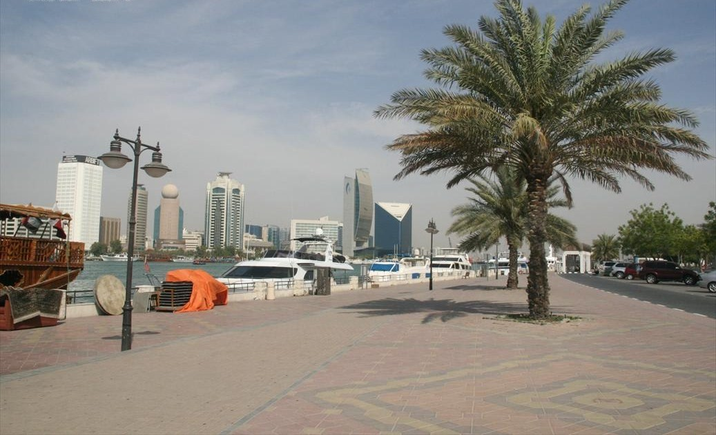 This is a photo showing the famous buildings that form the Deira skyline in Dubai, United Arab Emirates as seen from the Bur Dubai side of Dubai Creek on 8 May 2007.